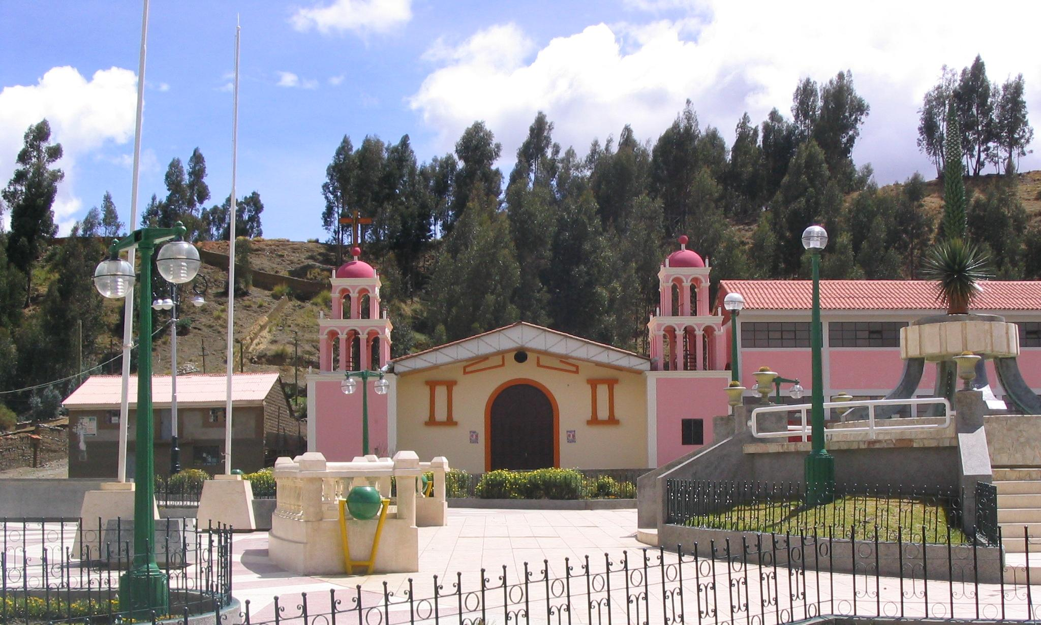 Catac, town in Ancash (Peru)